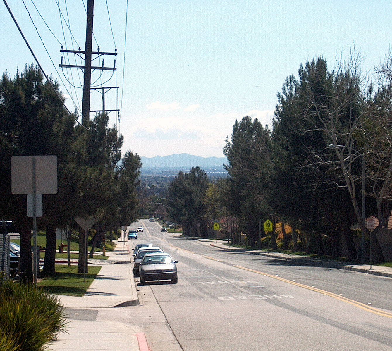 View of Moreno Valley, California looking south down Kitching Street. Taken by Slowking Man on Sunday, March 6, 2005.